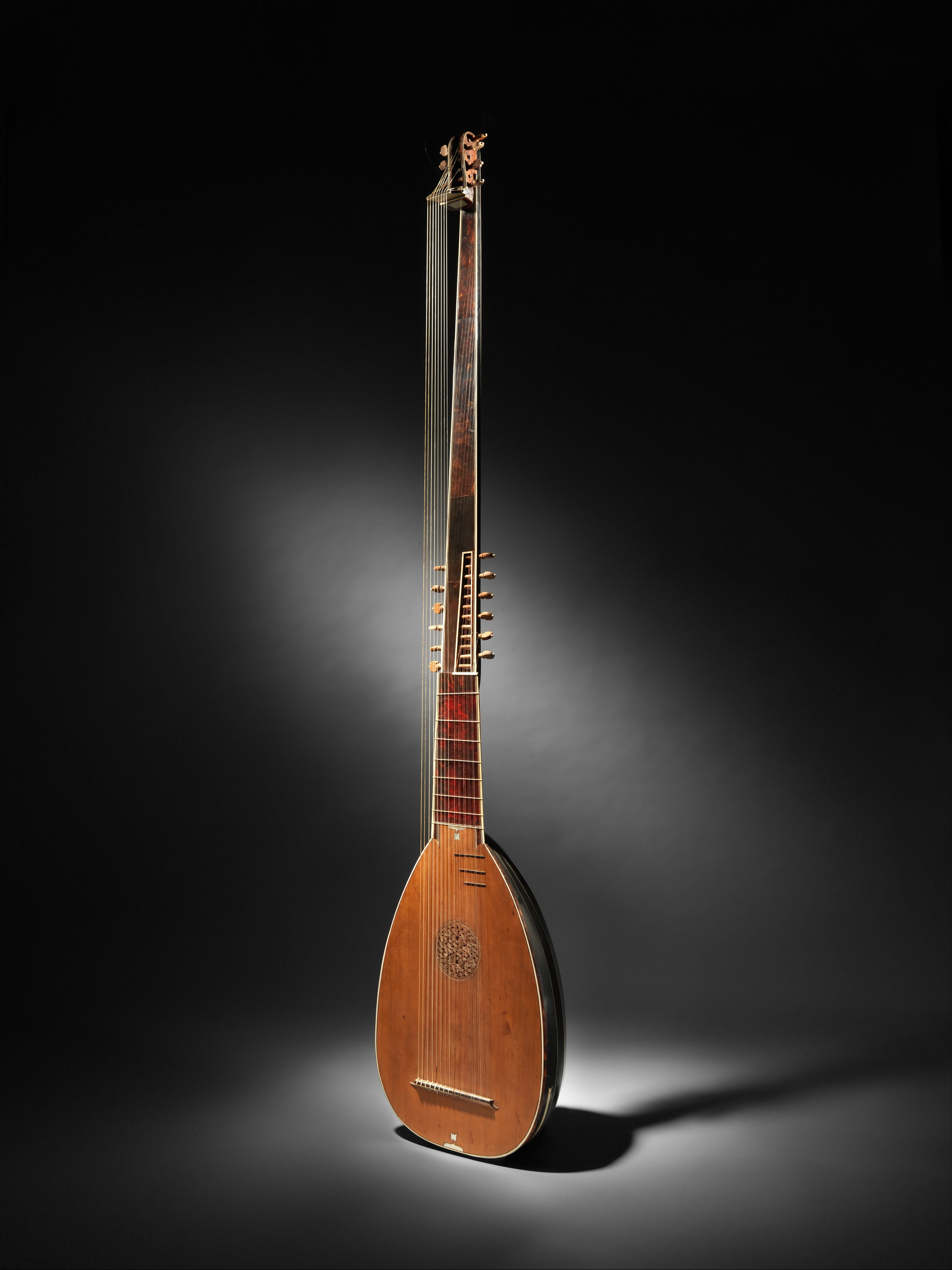 Italian; Archlute; Chordophone-Lute-plucked